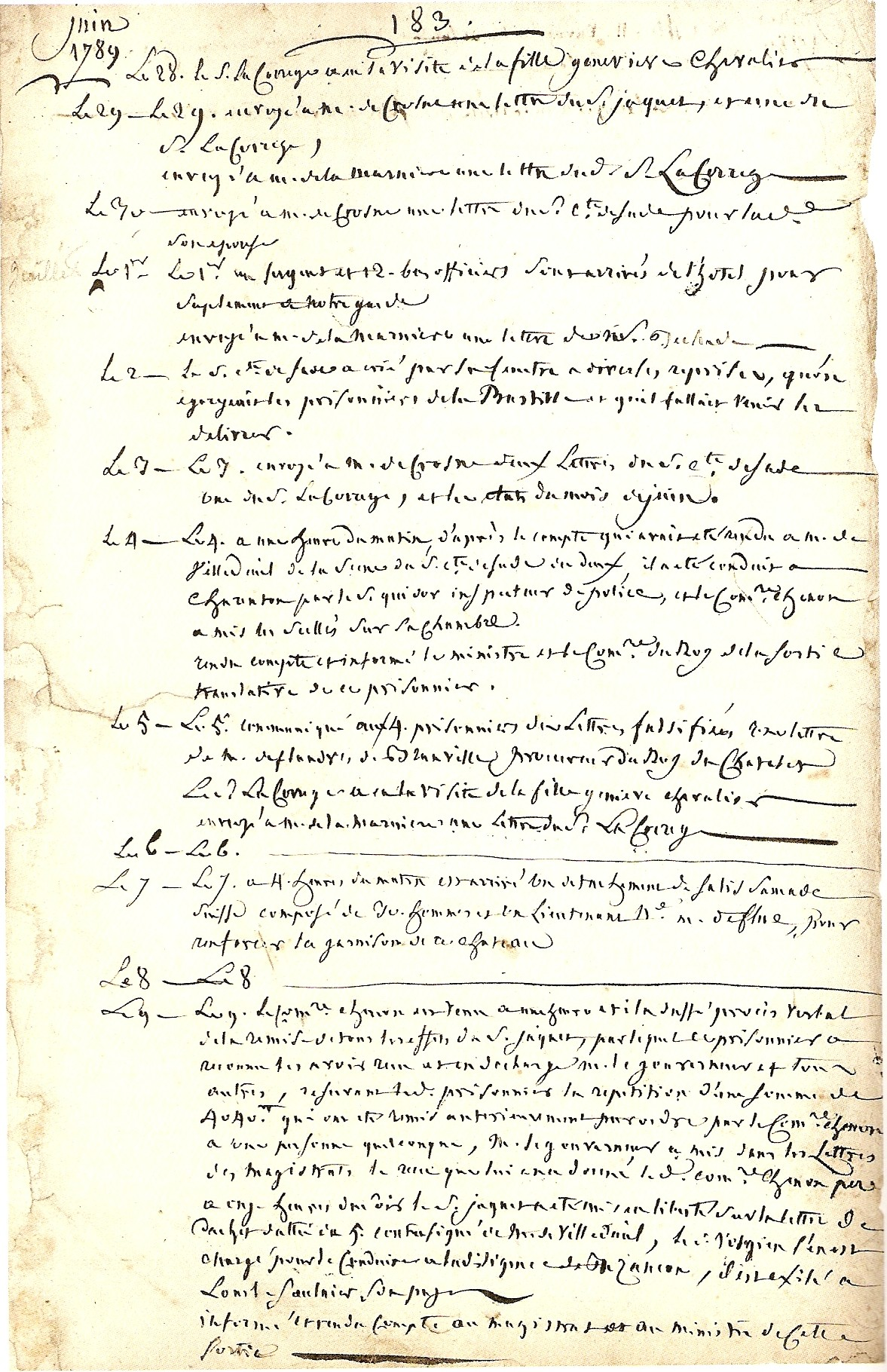 Page from Major de Losme's journal for 1783